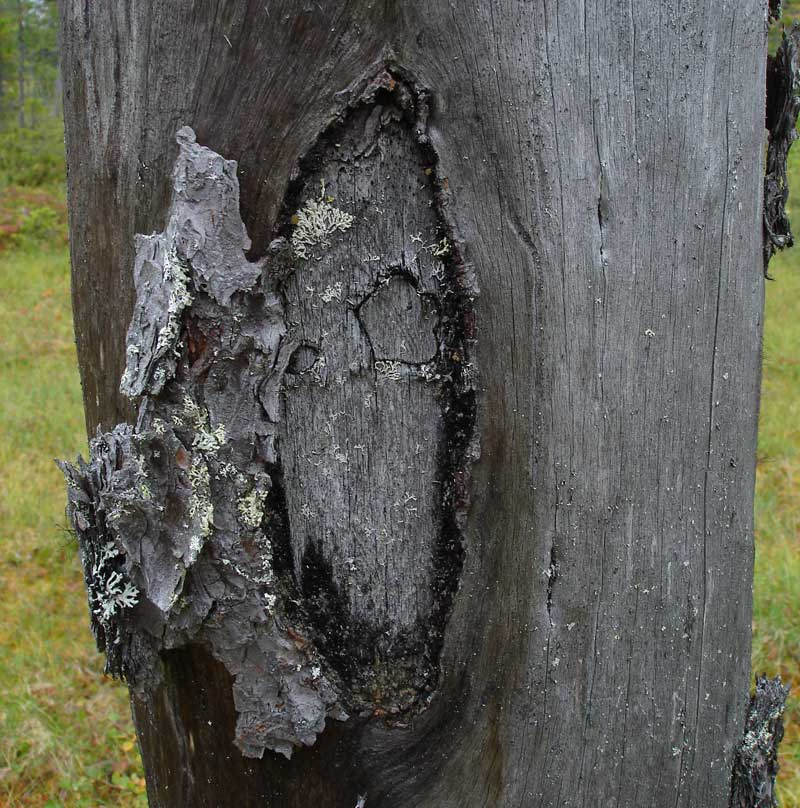 Dead pine close to Lycksele in northern Sweden, marked for cutting with a crown (the mark of the state).